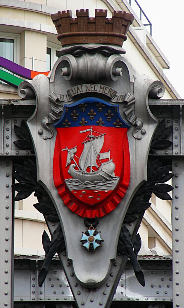 Paris metro line 6. "Fluctuat nec mergitur" is Paris' shibboleth.